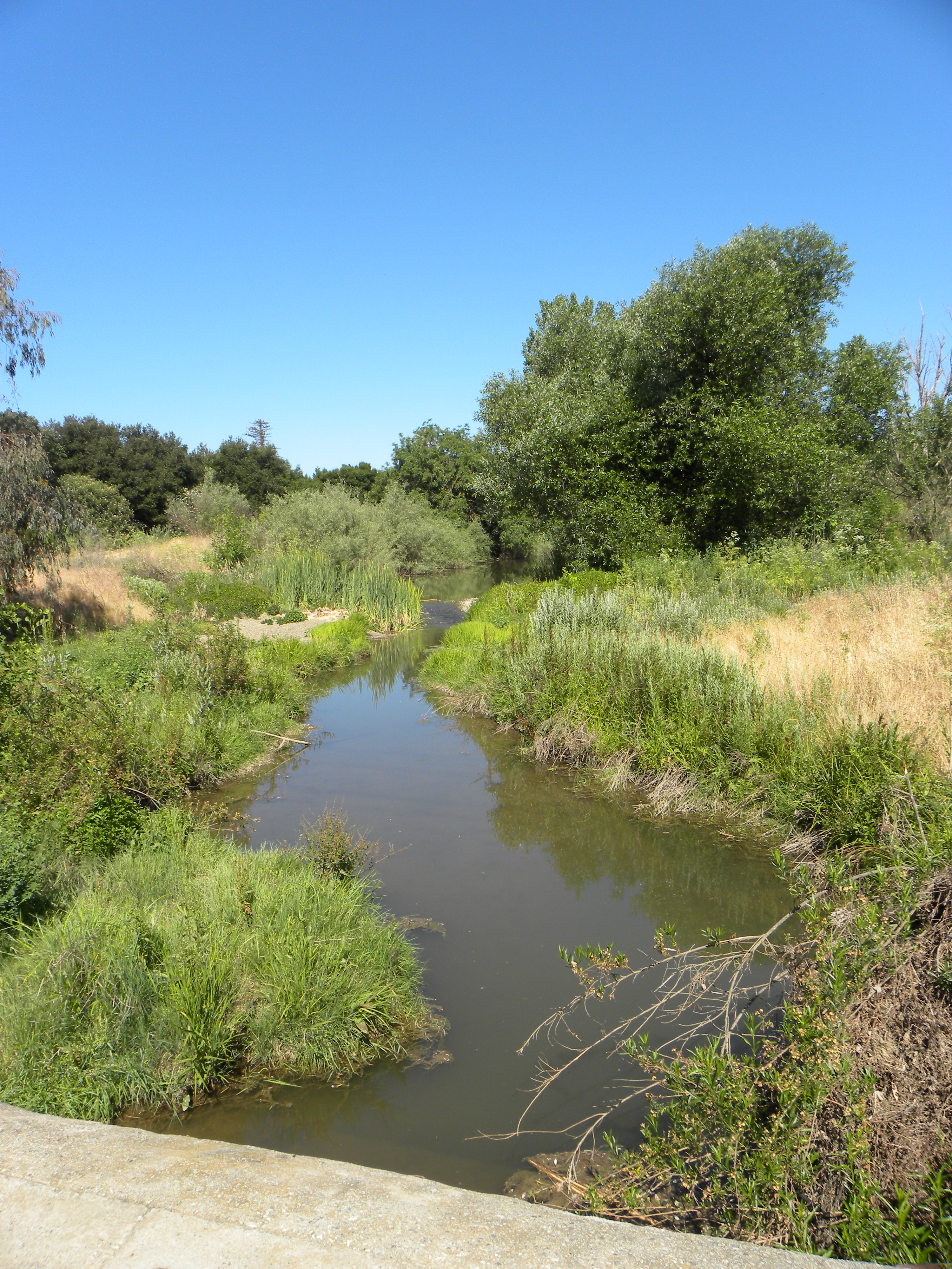 Uvas Creek Preserve, as seen from Miller Avenue near Silva's Crossing in Gilroy, California.